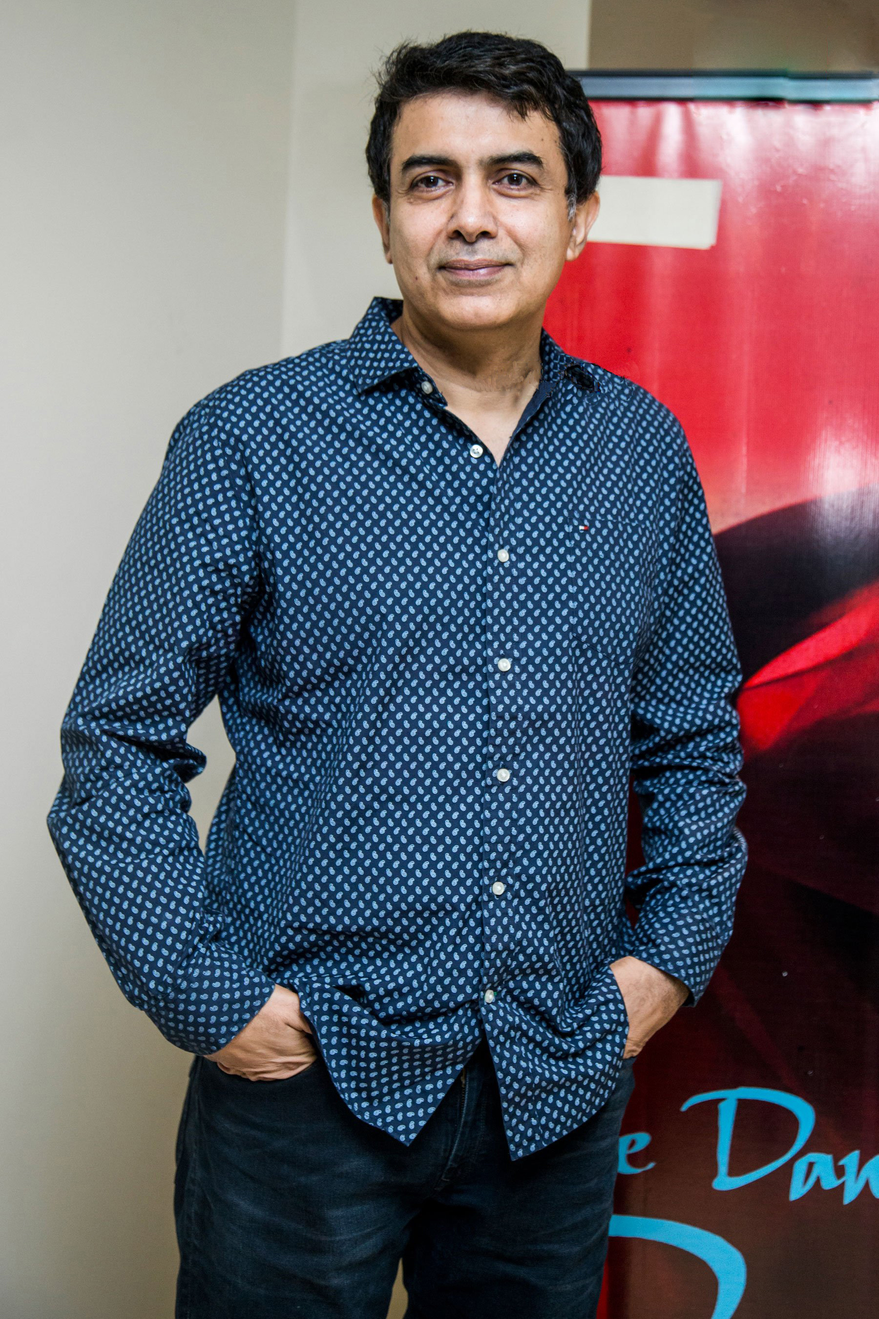 Rajiv Menon at Kanika Dhillon's The Dance of Durga Book Launch